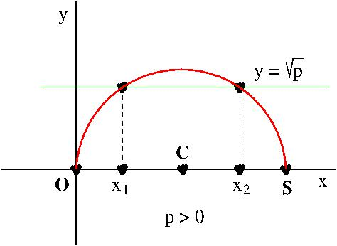 Solution of 2. order equation with Descartes graphical method